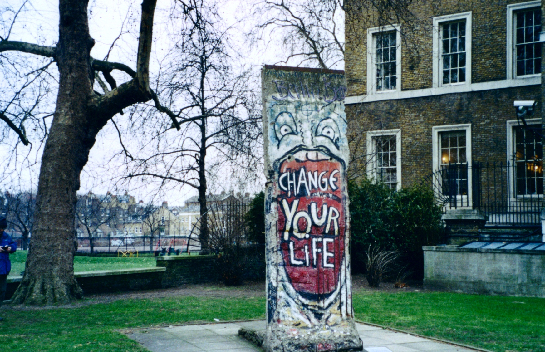 A fragment of the Berlin wall, at the Imperial War Museum, London. Previously on wikipedia, now moved to Commons. Note that the licence has moved from GDFL to the freer PD-All Rights Disclaimed; and that the image itself has been reprocessed.